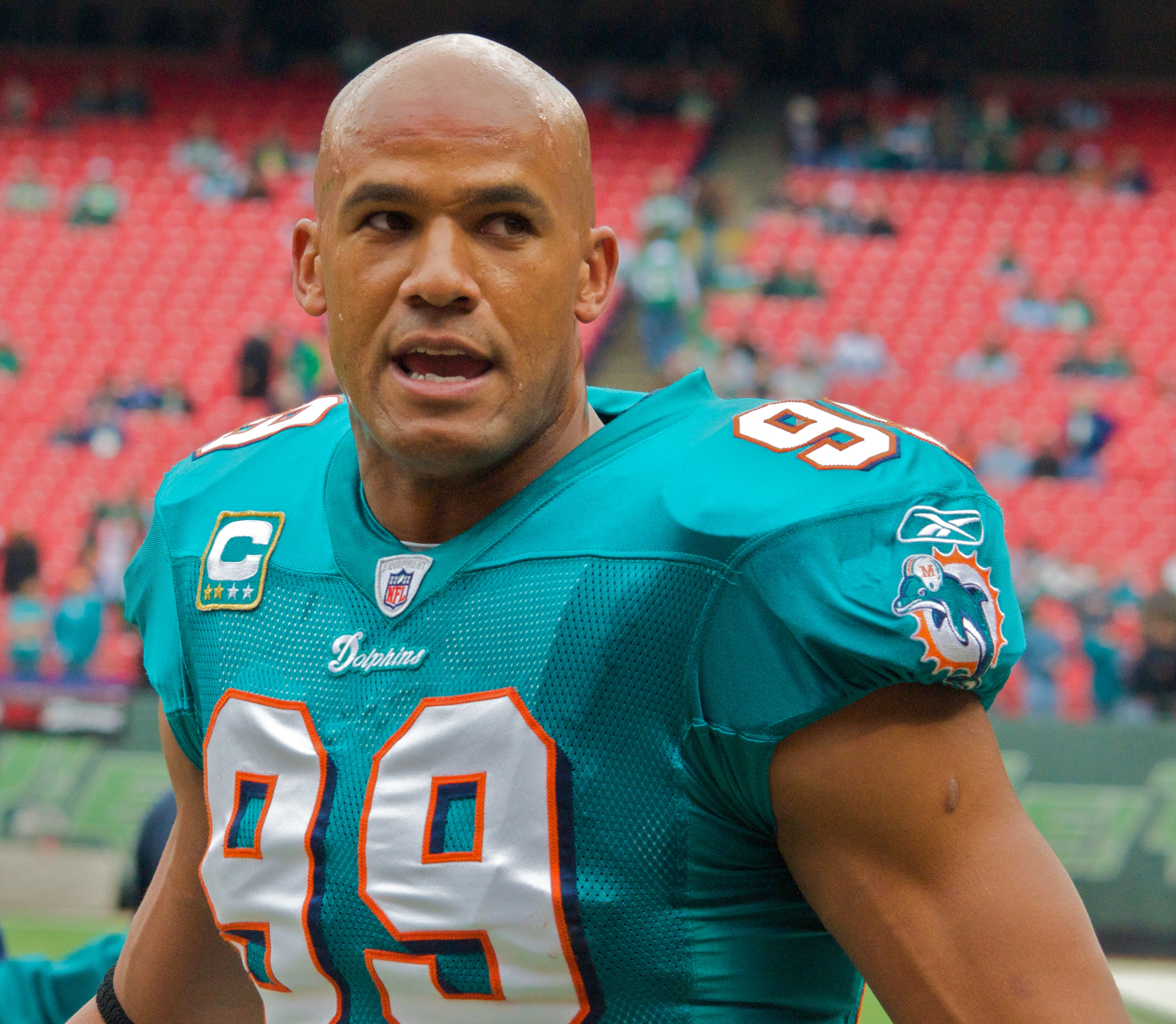 Miami Dolphins linebacker Jason Taylor during the game against the New York Jets on November 1, 2009.